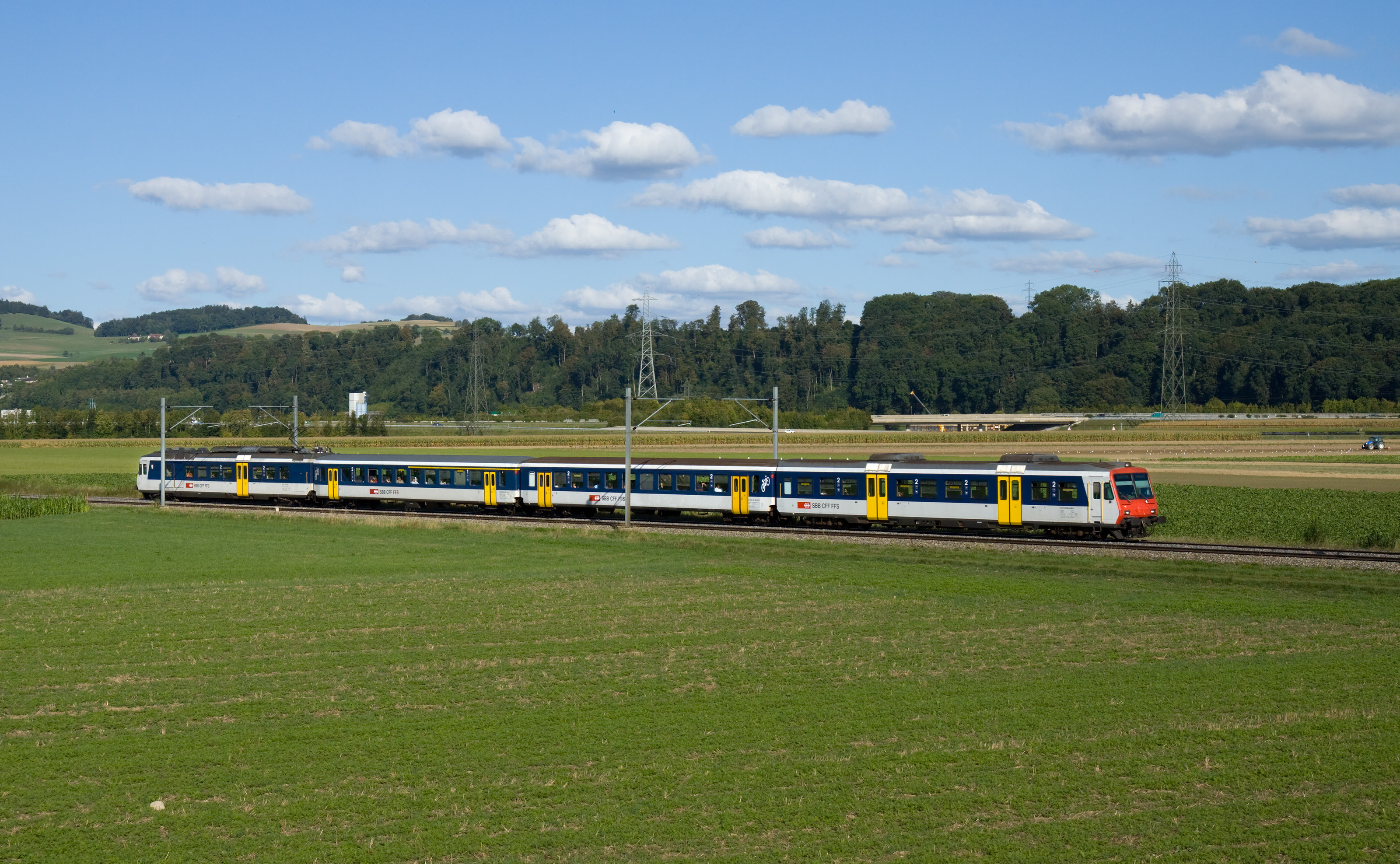 SBB NPZ trainset on an Réseau Express Vaudois service (line S1) near Yverdon